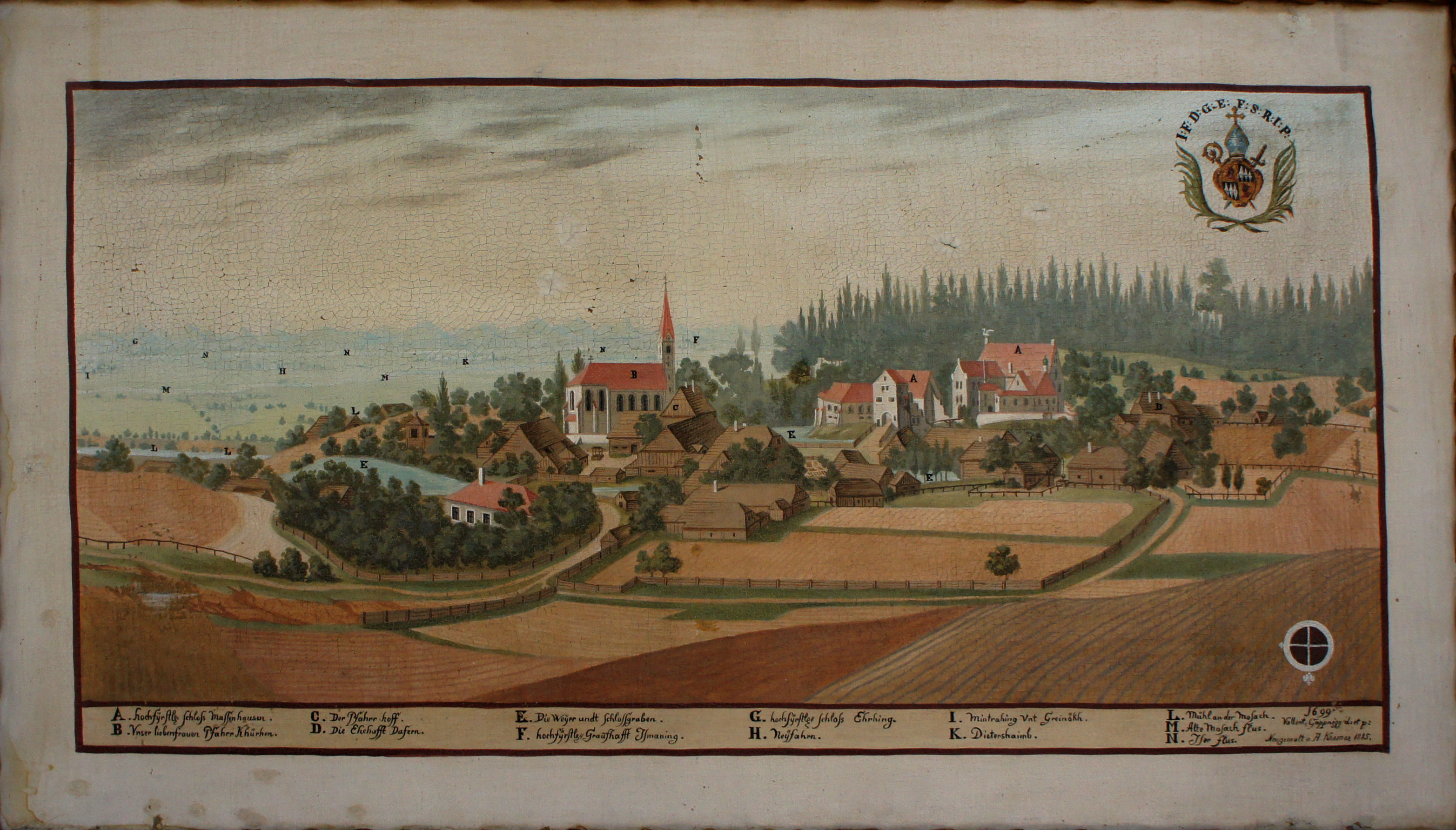 View of Massenhausen near Freising, Bavaria. Part of a series of 32 paintings executed by Valentin Gappnigg between 1698 and 1702. Gappnigg had been commissioned by the prince-bishop of Freising, Johann Franz Eckher von Kapfing und Liechteneck, to paint views of the various possessions of the prince-bishopric. While the core territories of Freising were located in Bavaria, it also included several far-flung enclaves located inside Tyrol, Styria, Carinthia, Lower Austria and Carniola (now Slovenia).